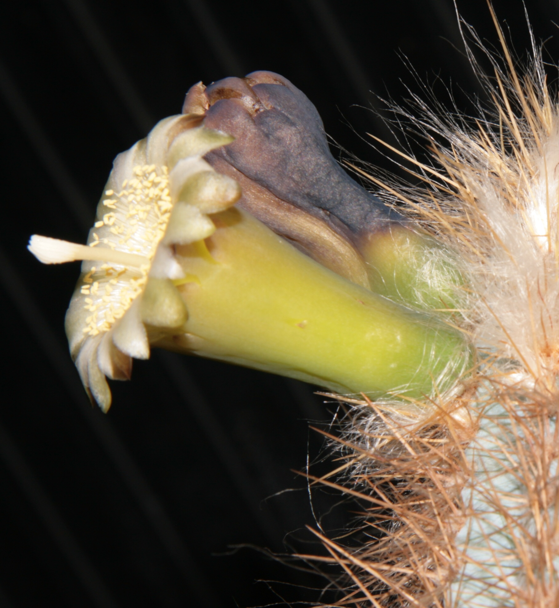 flowering plant from type locality, W Bahia, Serra de Muquem, Brasil